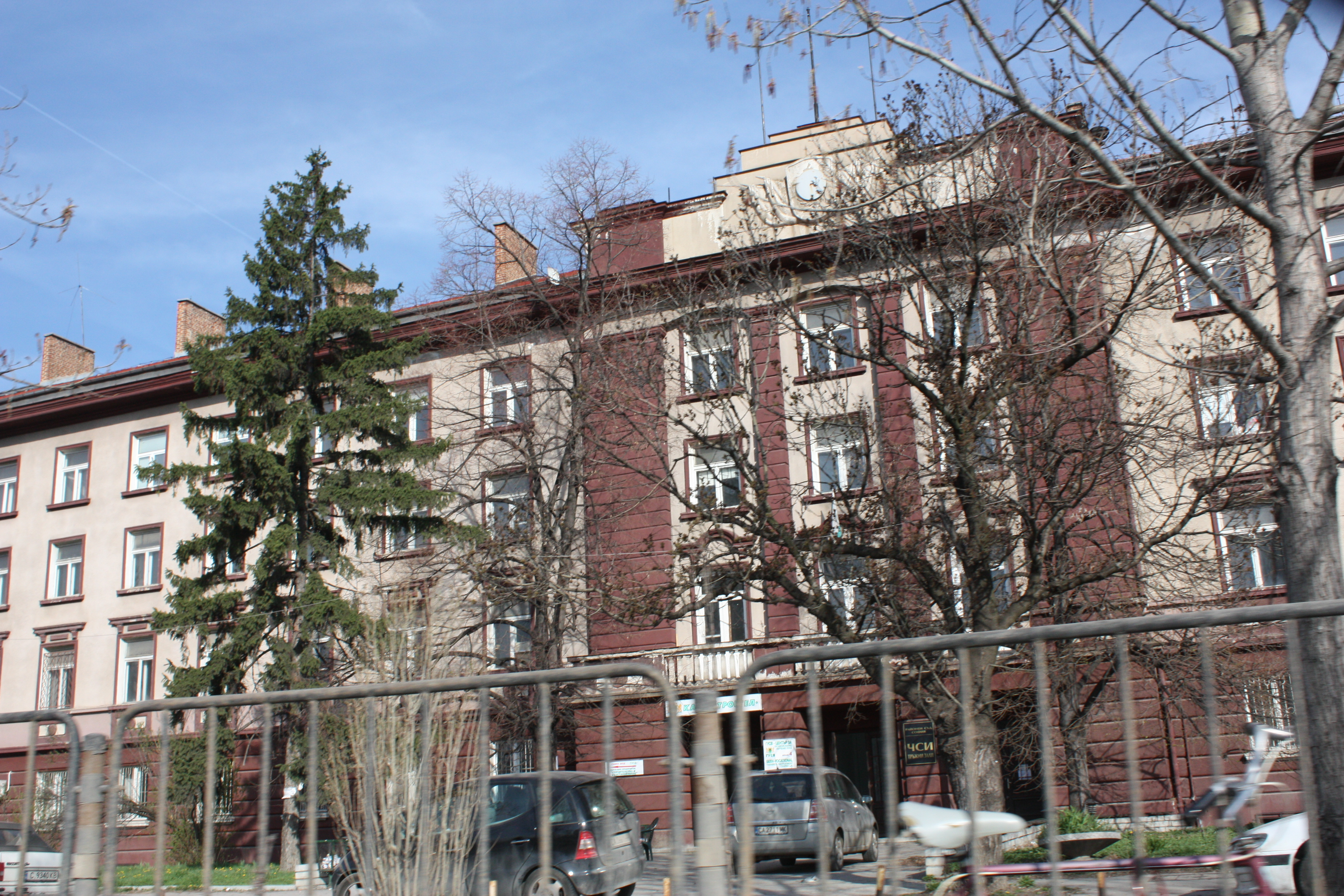 Boulevard Zar Boris III, Sofia, Bulgarien, On the road from Sofia Center to Rilski manastir